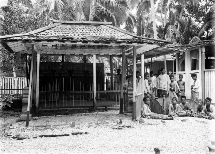 Sultan's grave